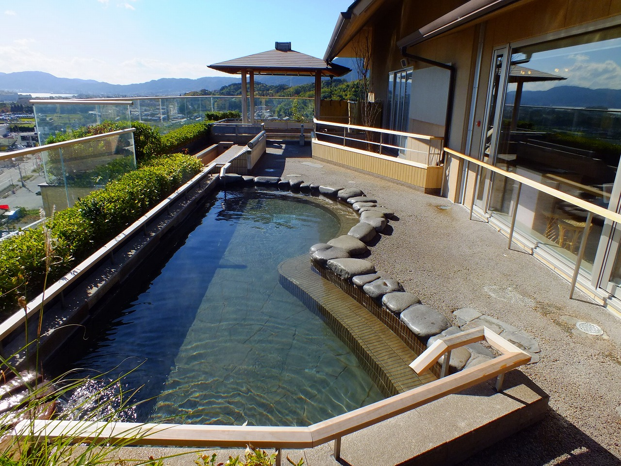 Yumotokan-Ogoto onsen Lake Biwa view 湯元舘屋上露天風呂